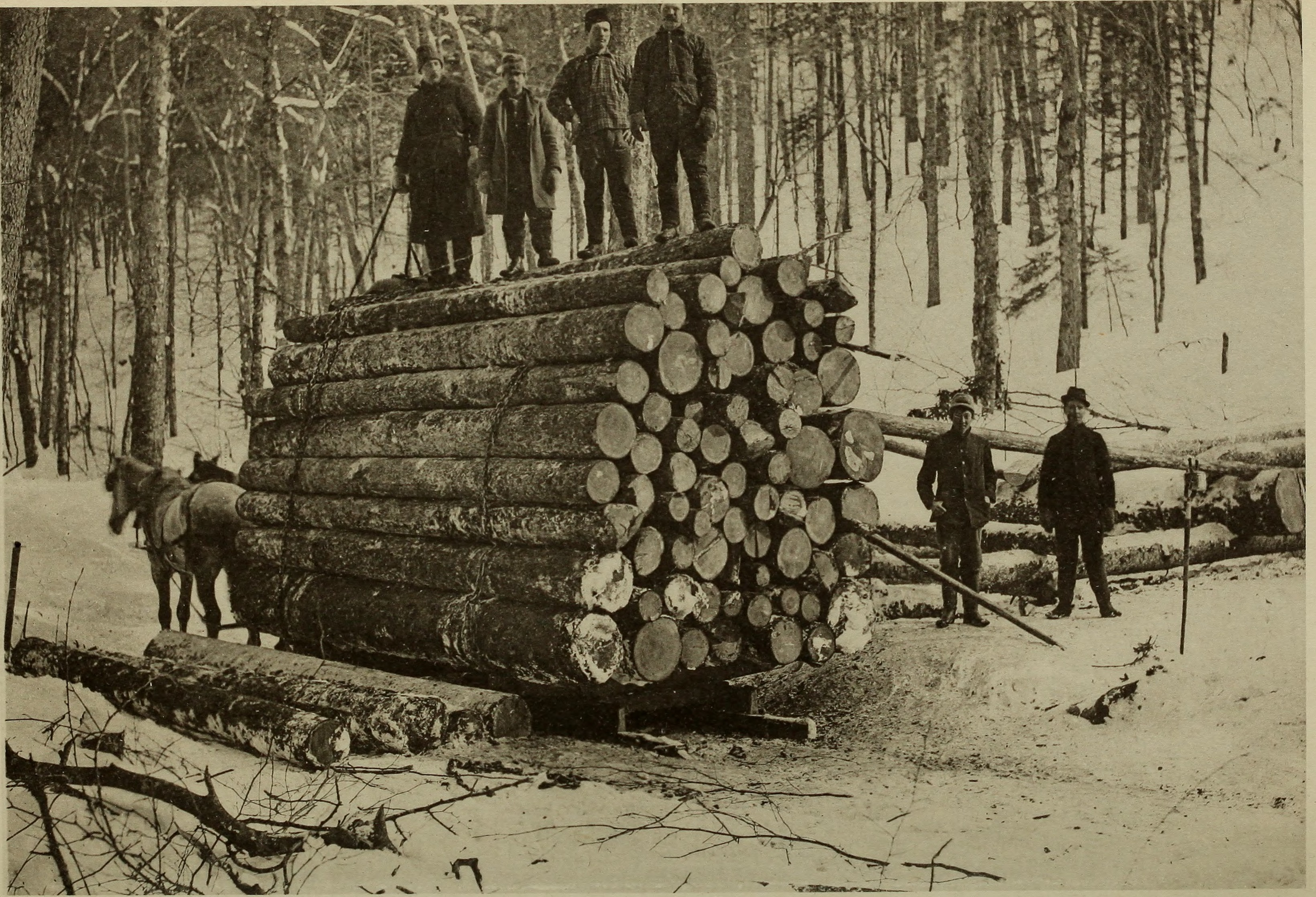 0 I—I ® l-H X 0 0